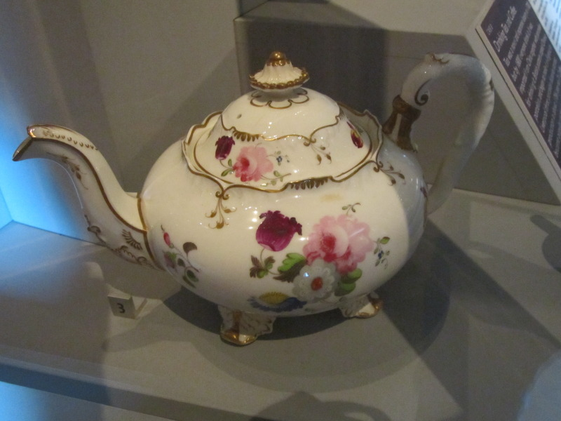 Porcelain teapot, Walker Art Gallery, Liverpool, England. Made around 1830 by Henry and Richard Daniel of Stoke-on-Trent.